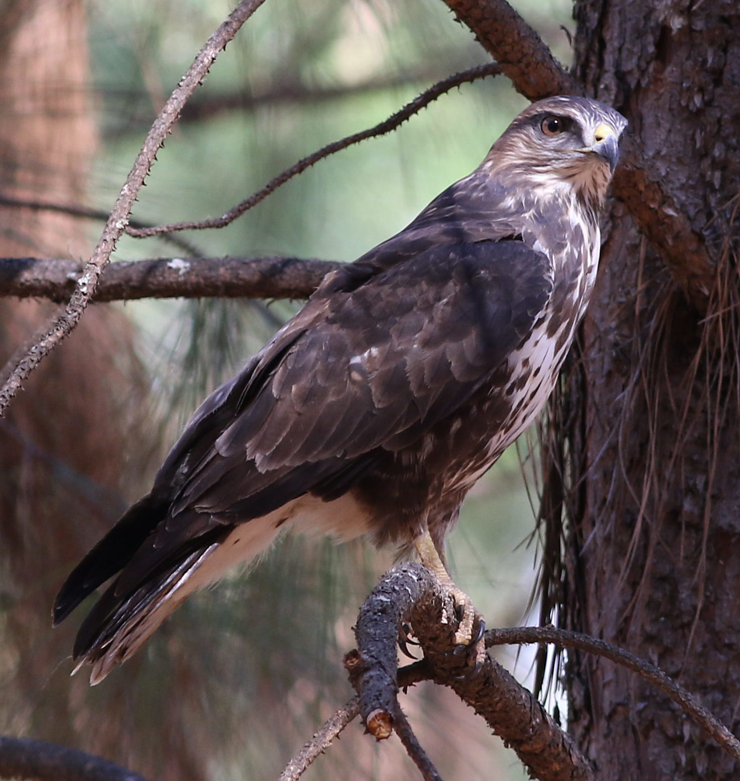 Forest Buzzard, Buteo trizonatus, at Hangklip Forest, Makhado, Limpopo Province, South Africa